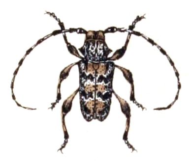 Aegomorphus clavipes, from Calwer's Käferbuch, Table 38, Picture 6. Taxonomy was updated to 2008, using mostly the sites Fauna Europaea and BioLib. Please contact Sarefo if the determination is wrong!